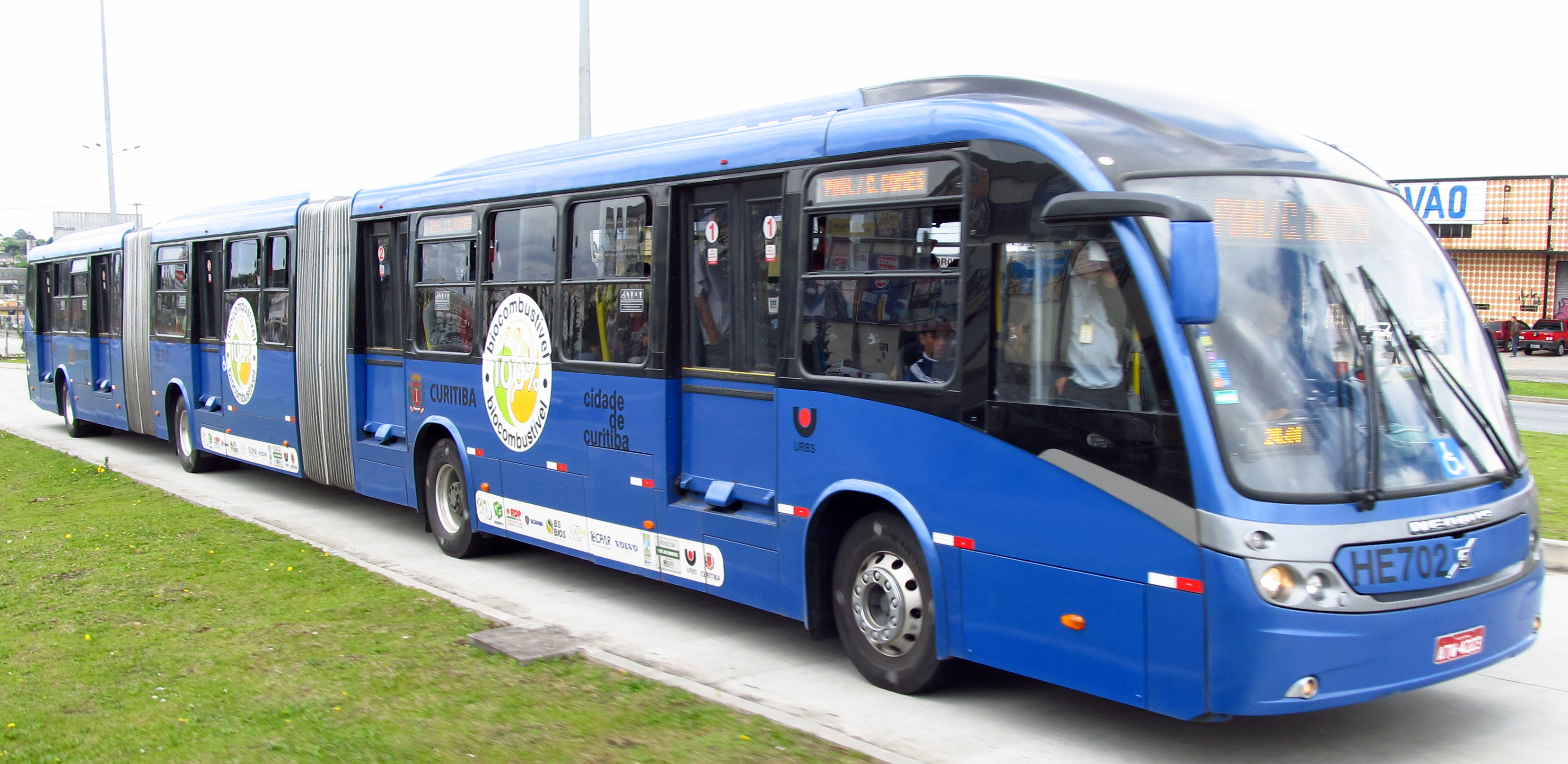 A Volvo B12M of Curitiba's BRT, at line 550 - Pinheirinho/Carlos Gomes. This bus runs on B100 Diesel (100% Biodiesel). This bus is owned by Auto Viação Redentor of Curitiba.